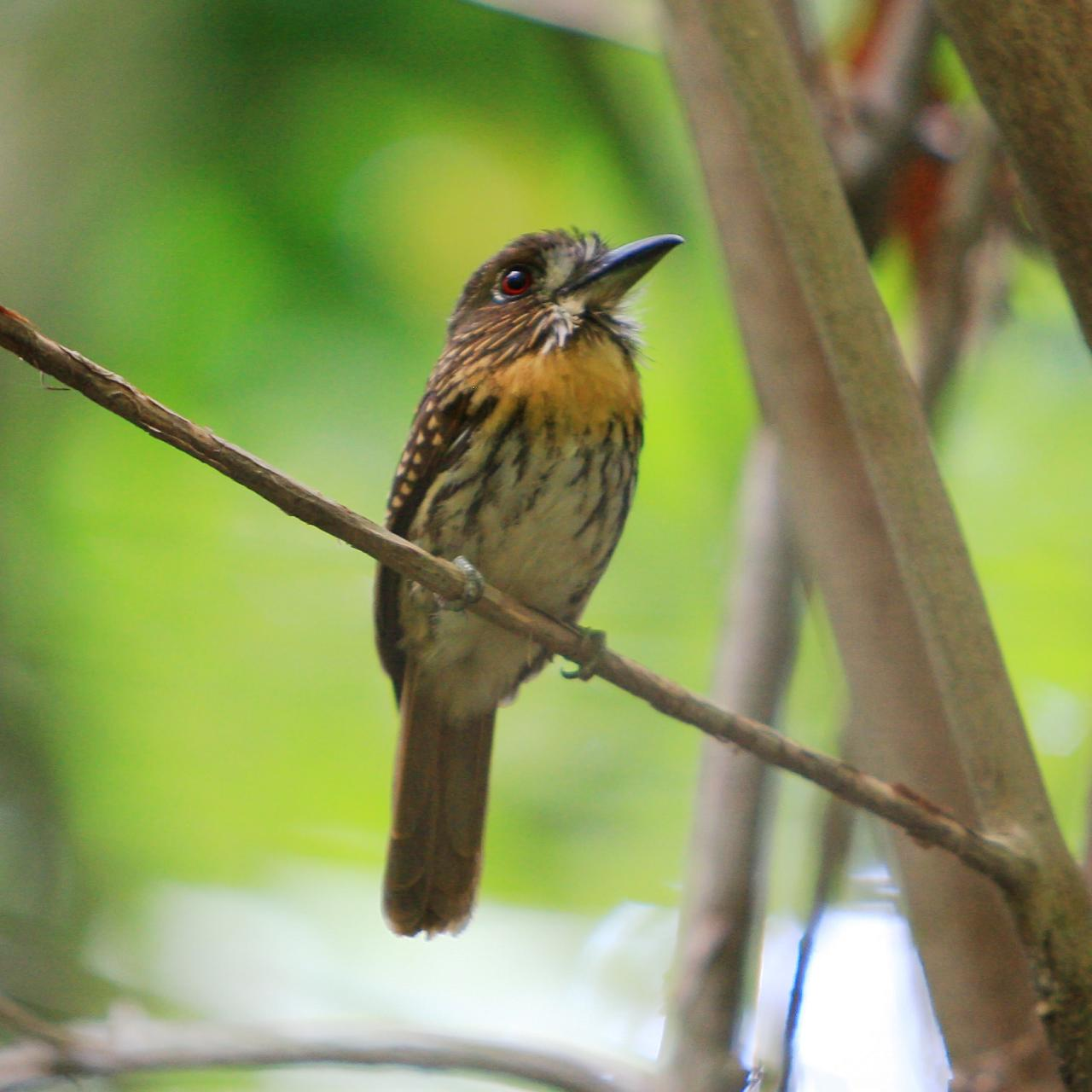 A White-whiskered Puffbird in Corcovado National Park, Osa Peninsula, Costa Rica.